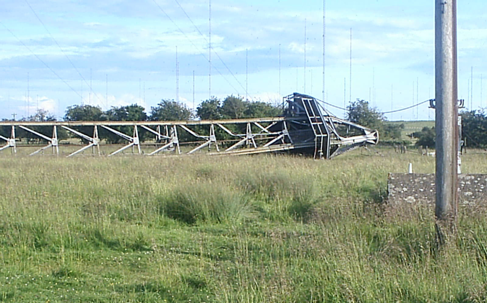 A radio mast at the Rugby transmitting station lying on its side and awaiting being cut up for scrap after being demolished in June 2004. Photo by G-Man June 2004